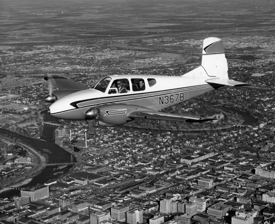 From the San Diego Air & Space Museum Archives, The Museum's images that are part of The Commons are marked "no known copyright restrictions," indicating that the Museum is unaware of any current copyright restrictions on the works so designated, either because the term of copyright may have expired without being renewed or because no evidence has been found that copyright restrictions apply.